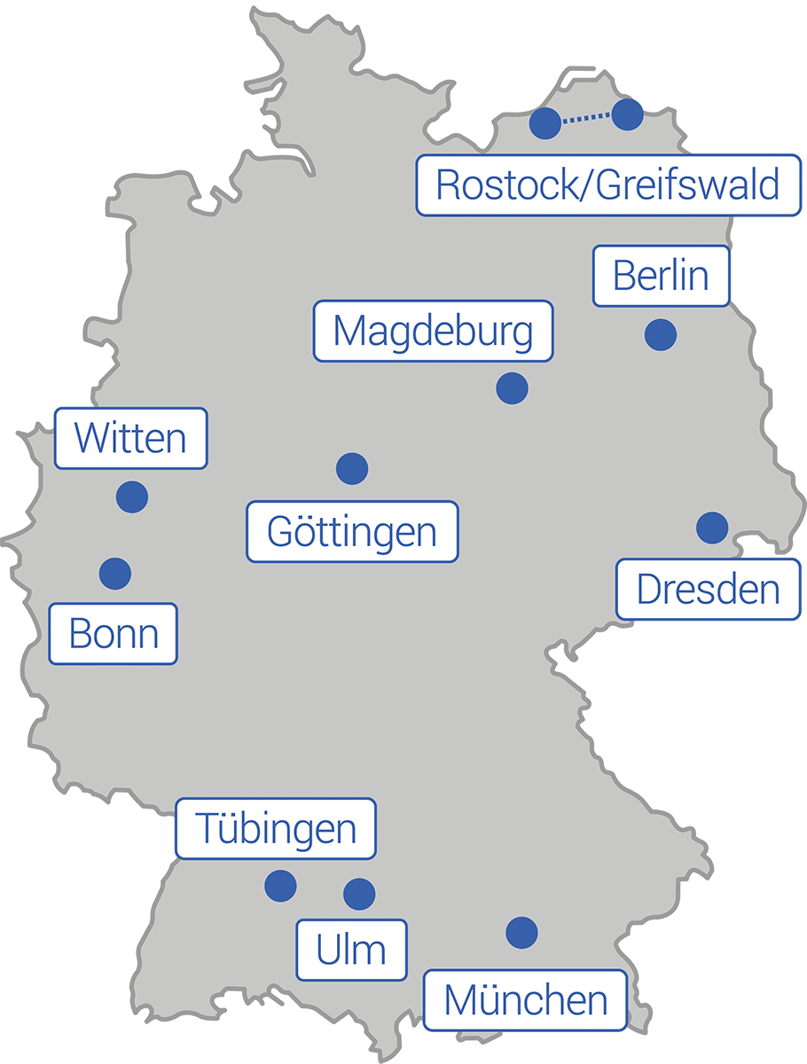 Map of all 10 DZNE sites